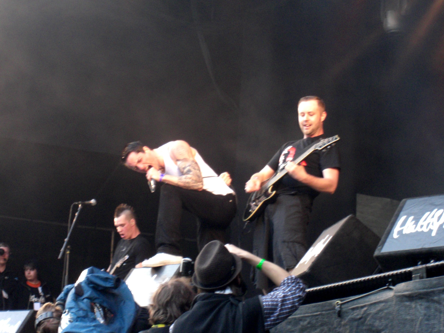 Raised Fist, Hultsfred Sweden 2008.jpg